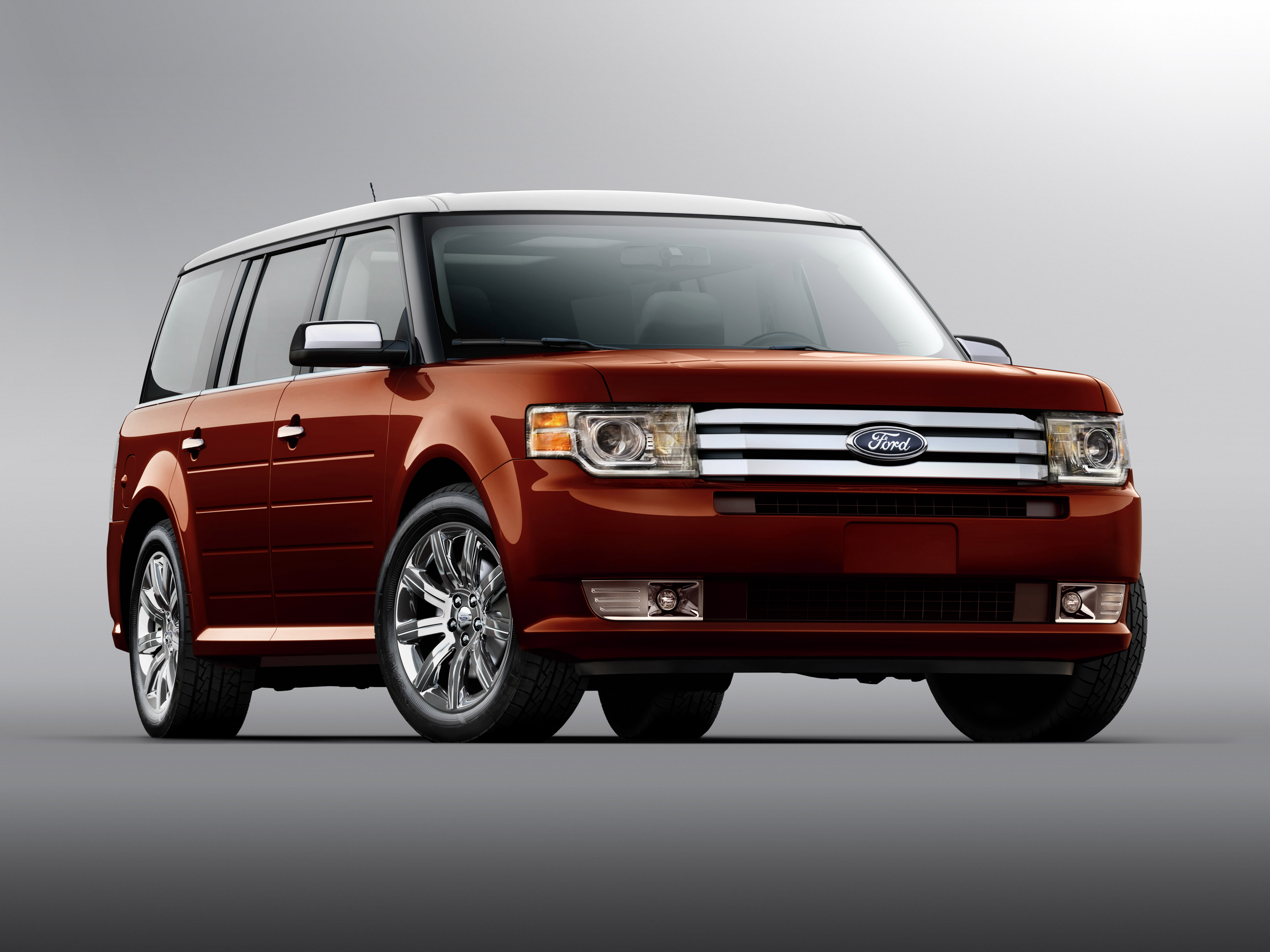 Publicity shot of the 2009 Ford Flex, kindly released under an acceptable licence by the Ford Motor Company.